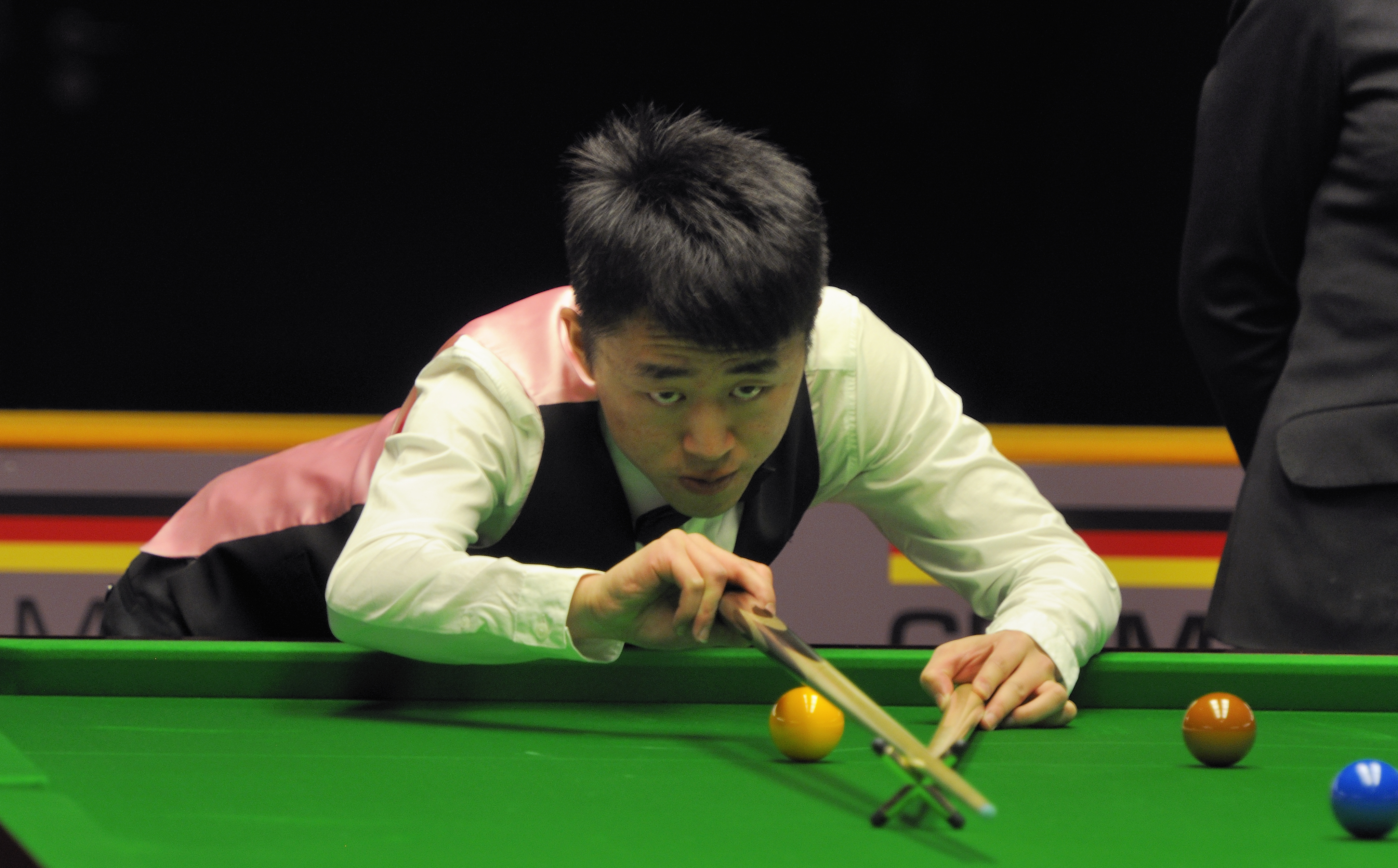 Picture taken in Berlin during the Snooker German Masters in 2014. Liu Chuang.